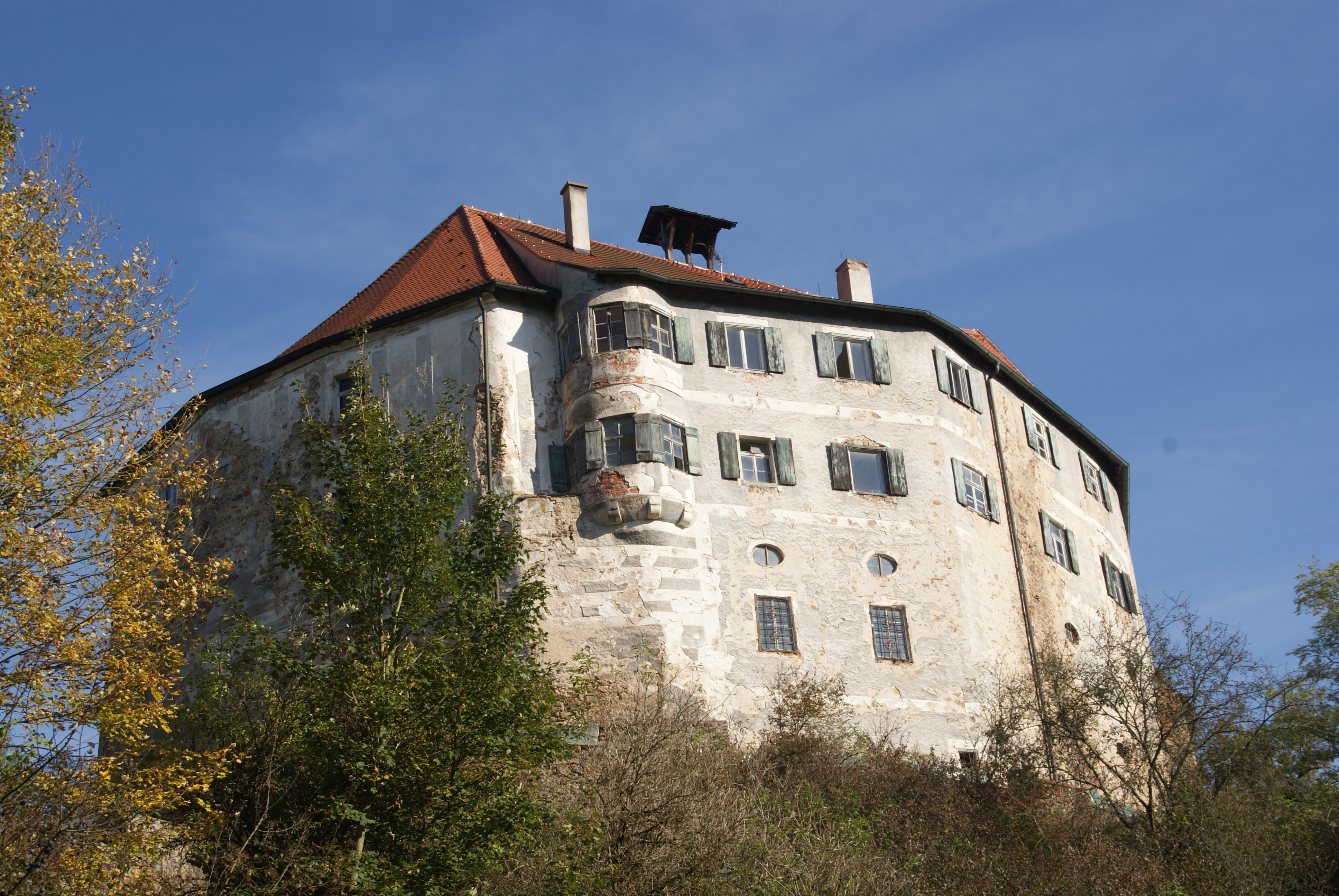 Schönberg Castle in Wenzenbach